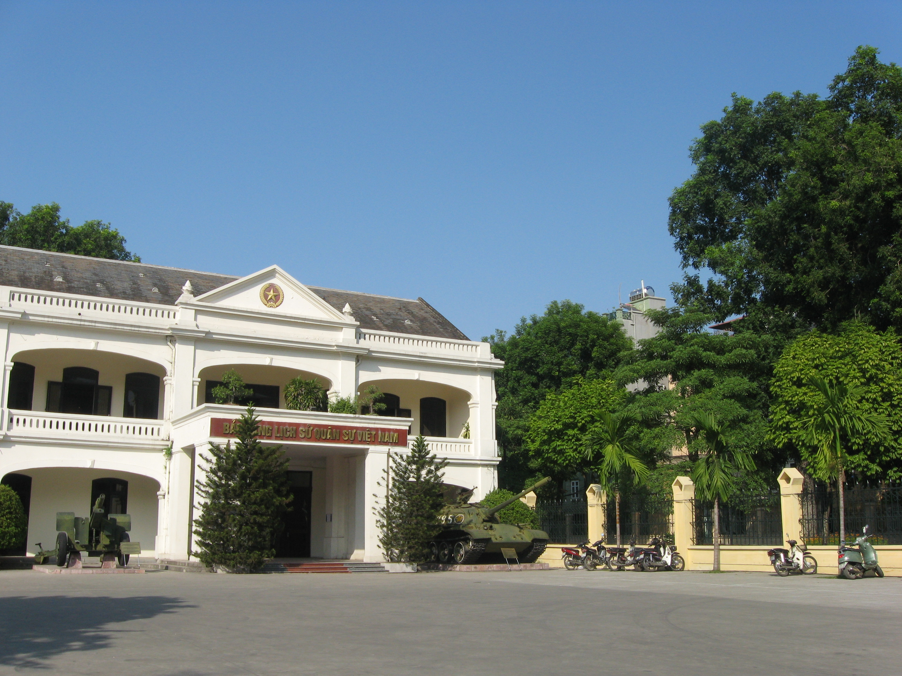 Vietnam Military History Museum